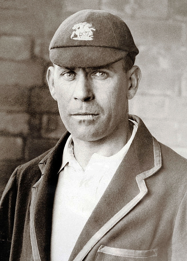 Middlesex and England cricketer Patsy Hendren, circa 1924. Hendren also played football for Brentford.